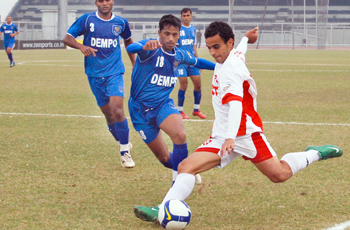 Baljit Saini of JCT against Dempo during I-League 2008-09 at Guru Nanak Stadium Ludhiana.Free to share and to use by giving credit to .For high resolution version visit